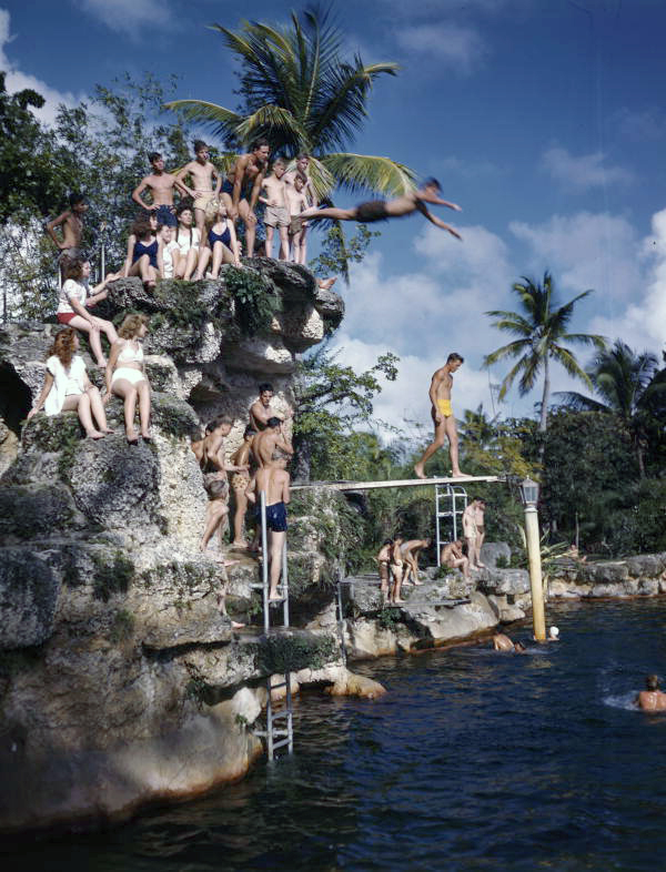 The Venetian Pool, also known as Venetian Casino, was created in 1923 from a coral rock quarry where much of the original coral rock was used to border and further accentuate the pool. It was later added to the National Register of Historic Places in 1981 as the only swimming pool to have such a designation. More metadata at source file